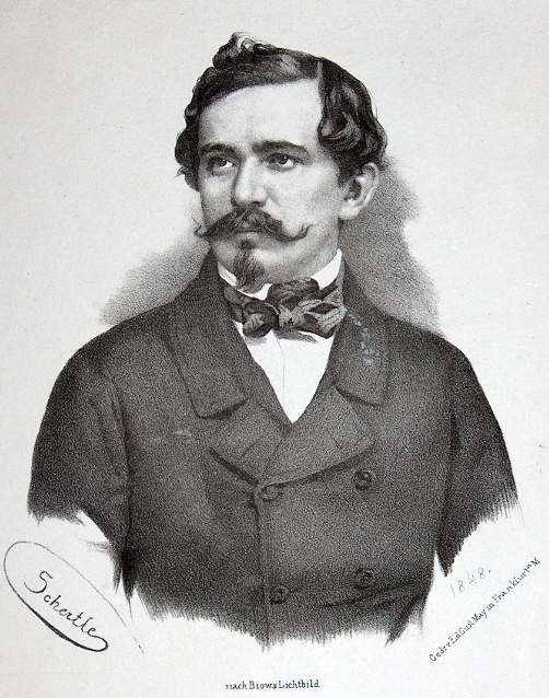 Portrait of Felix Lichnowsky